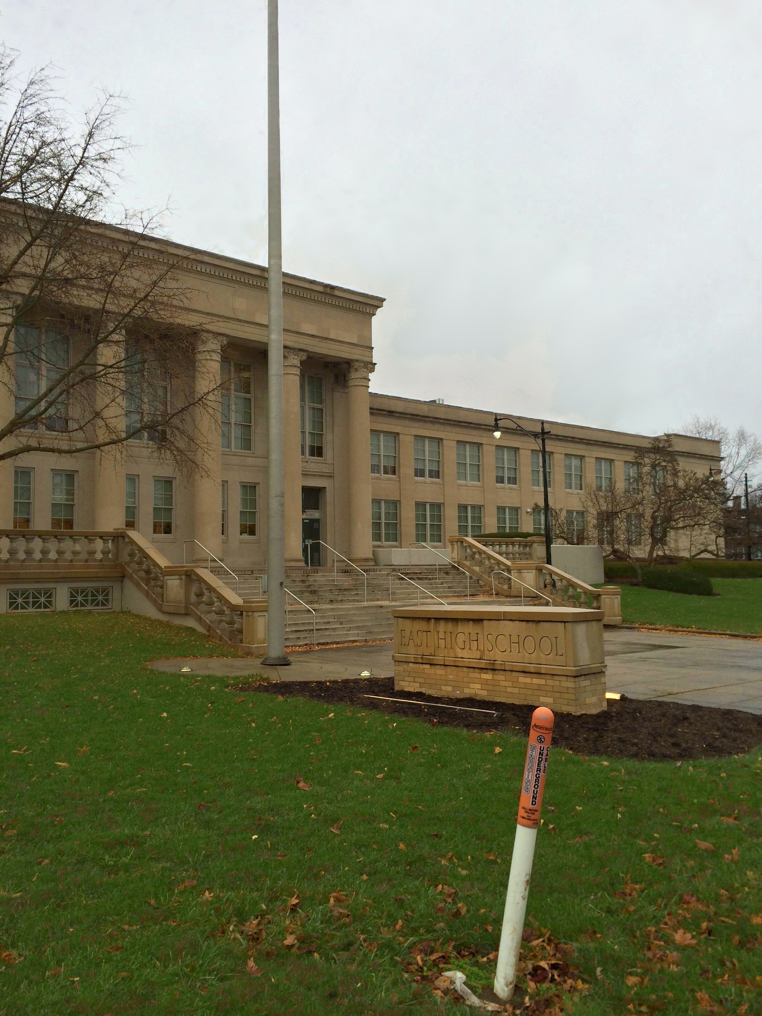 This is a picture of East High School, part of Columbus City Schools, in Columbus, OH